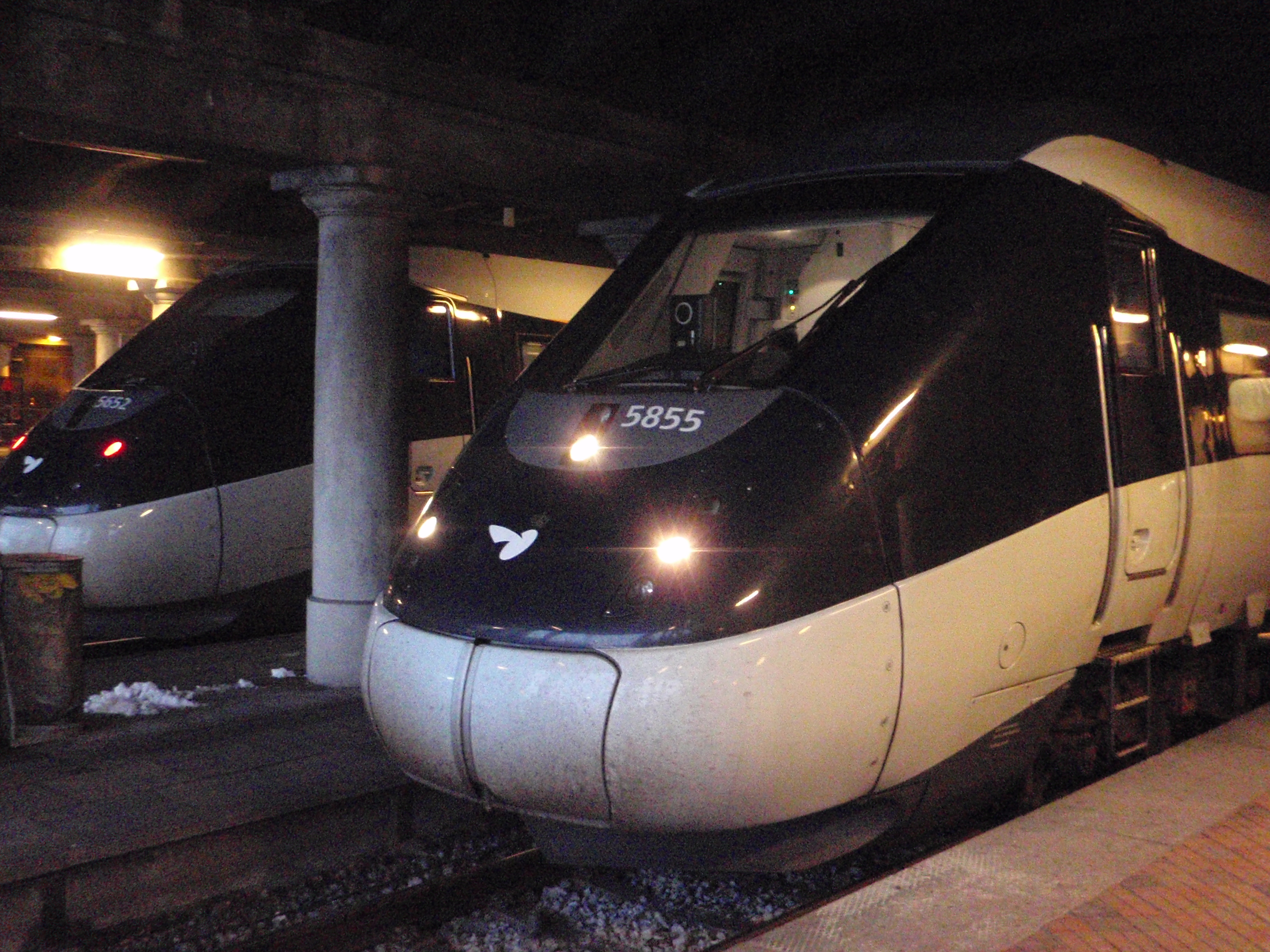 IC4 units 5652 and 5855 in Aarhus